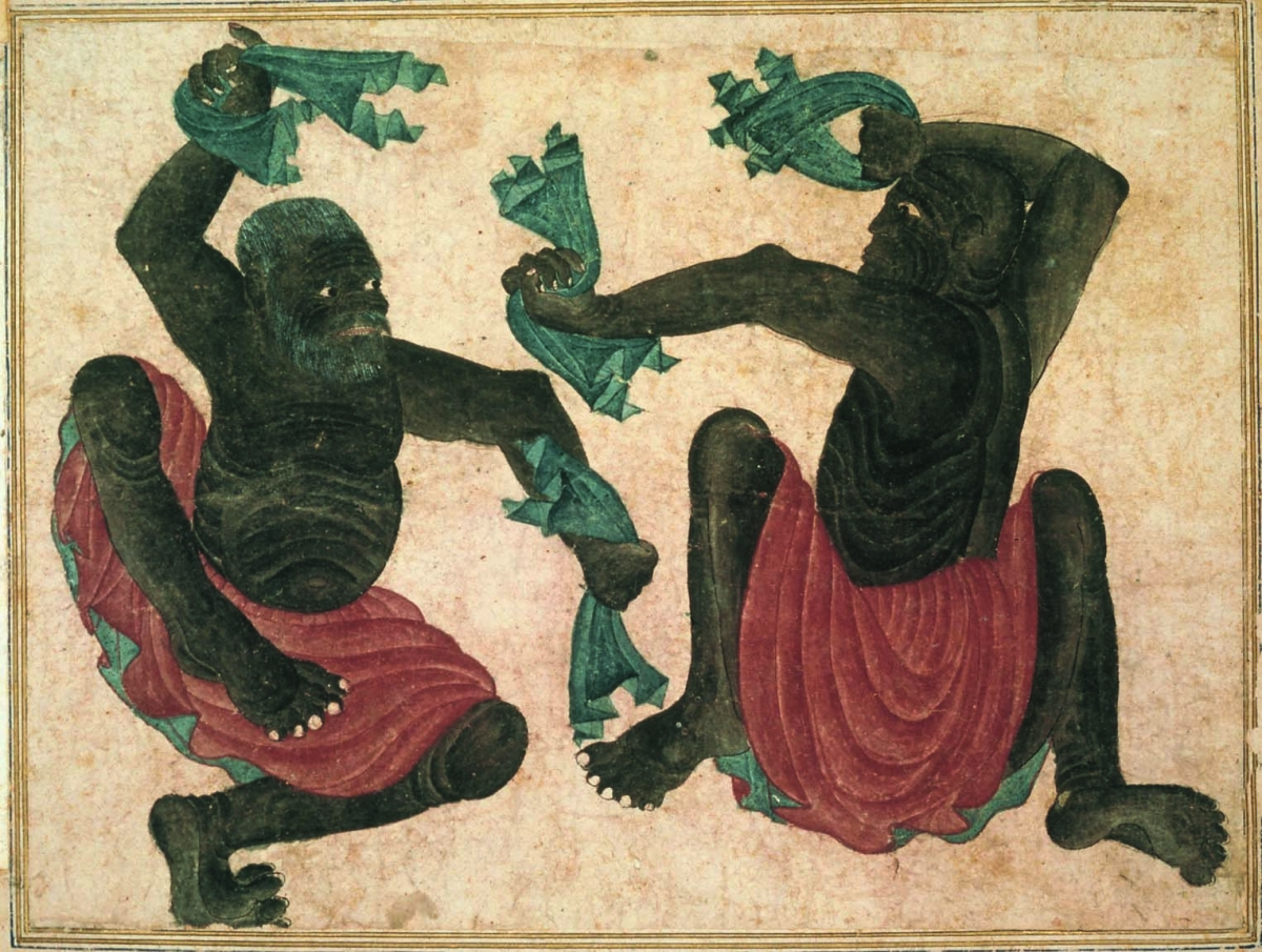 Dancing Men, Siyah Qalam (the Black Pen), 14th century